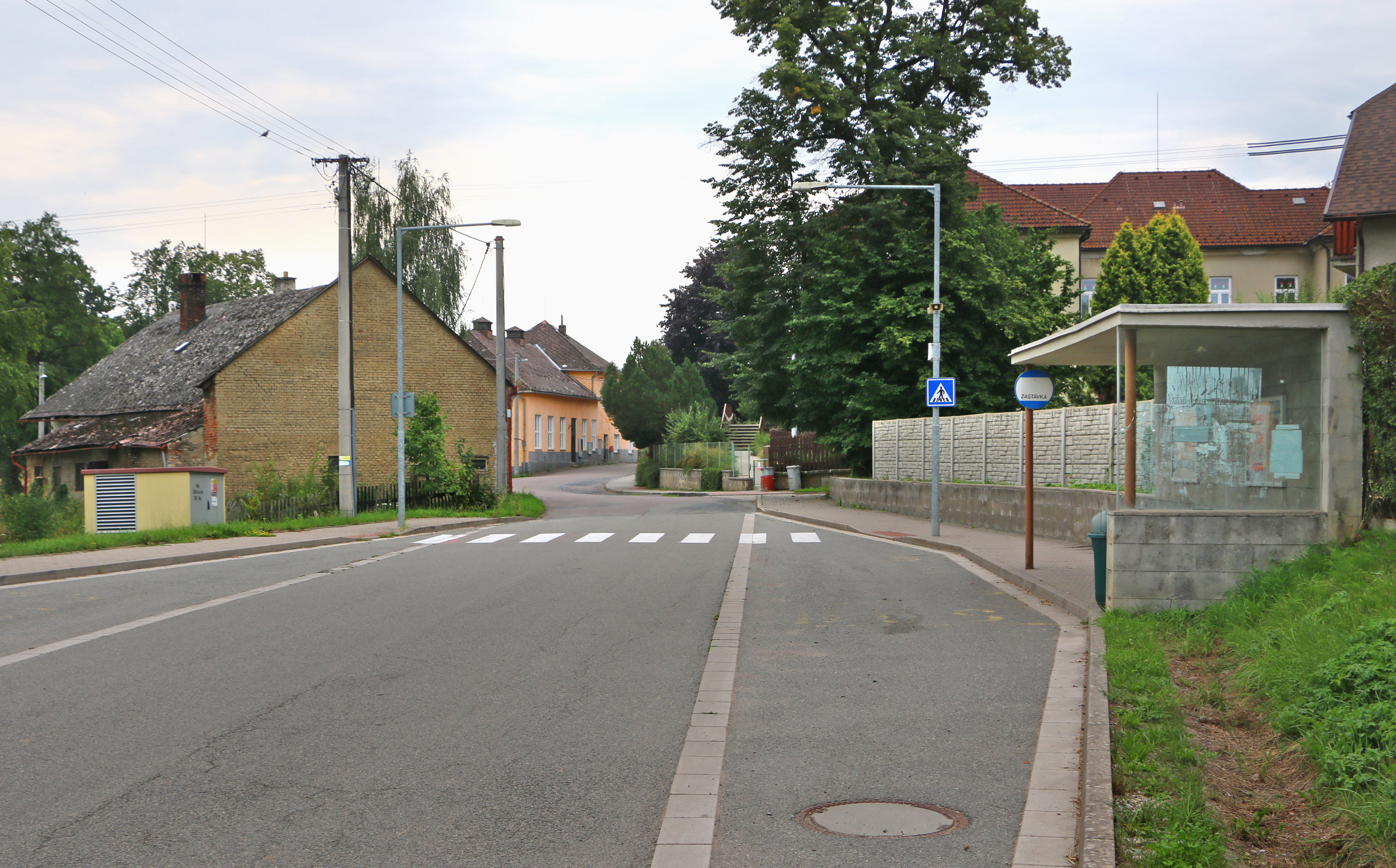 Dolní Třešňovec, part of Lanškroun, Czech Republic.